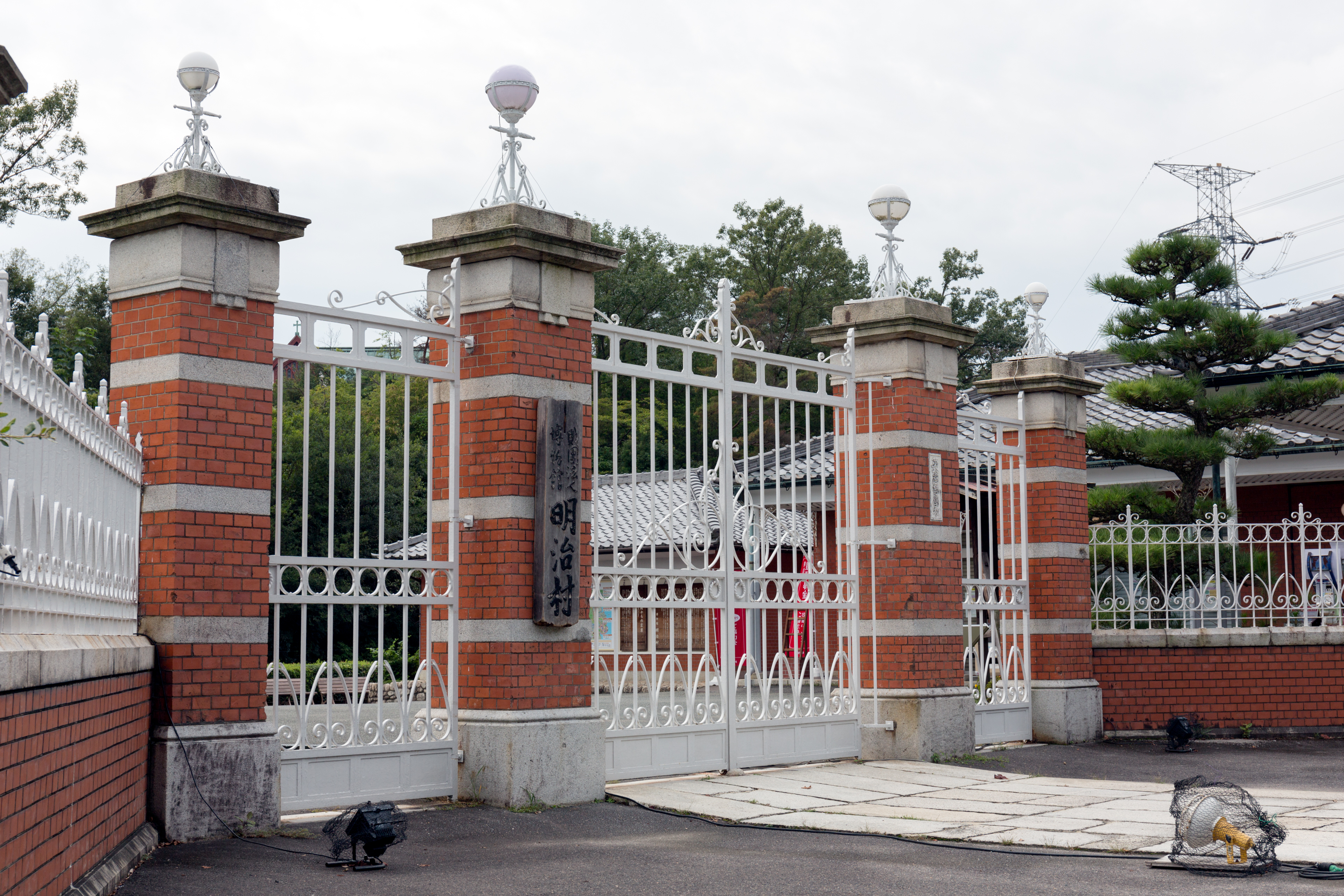 Eighth Higher School main gate